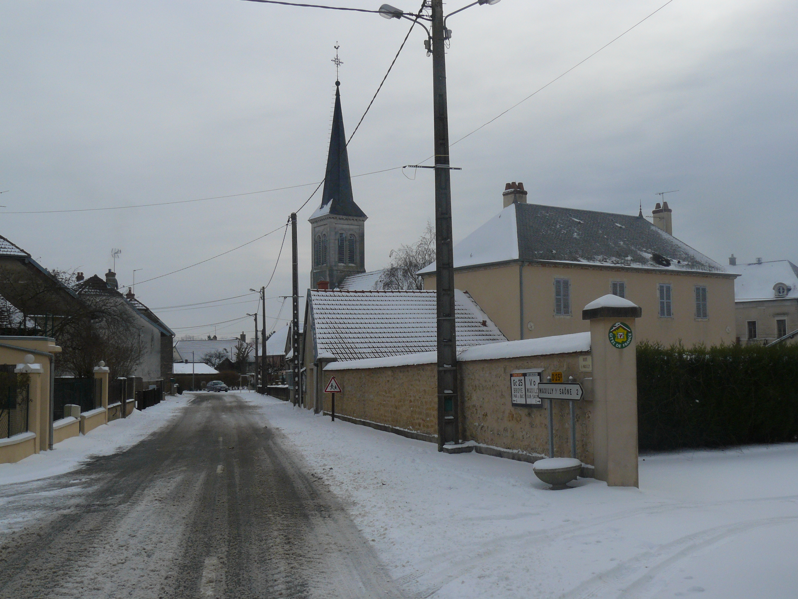 heuilley under snow